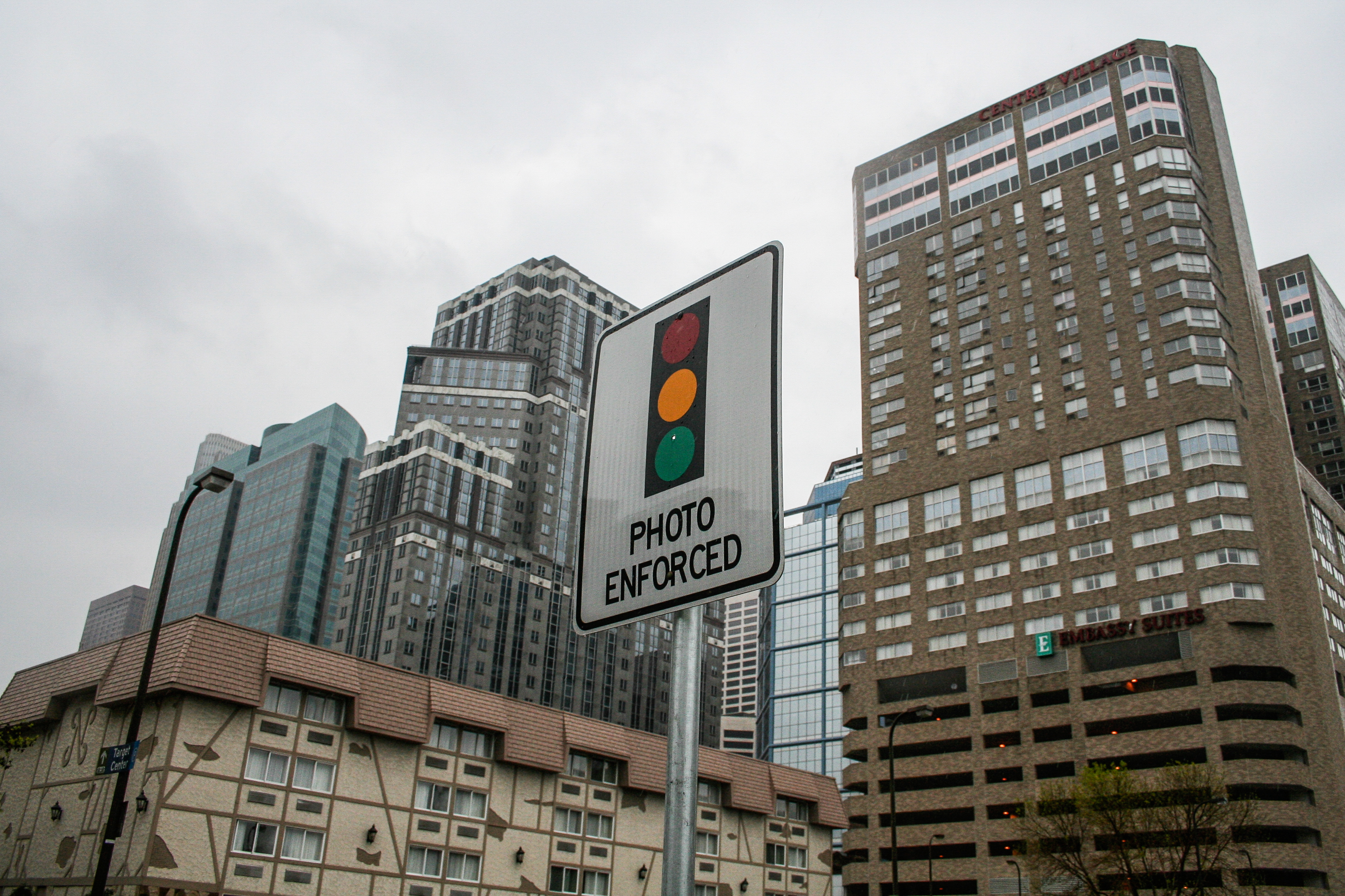 A 'Photo Enforced' red light camera warning sign is posted in Downtown Minneapolis, Minnesota in 2006. The Minnesota Supreme Court struck down the practice in 2007, given that license plates alone does not provide probable cause that the owner of the car violated traffic laws.